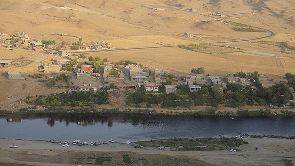 Dyala river near Darbandikhan